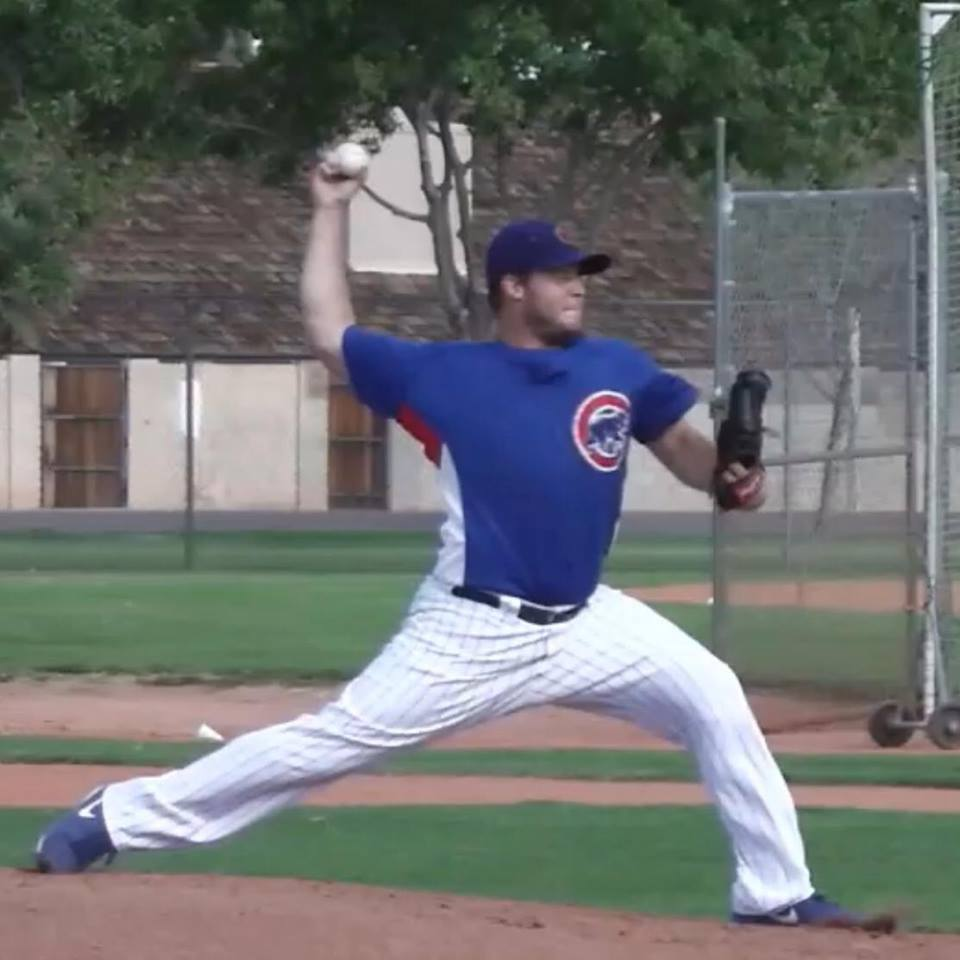 Ryan Searle pitching for Chicago Cubs in 2013